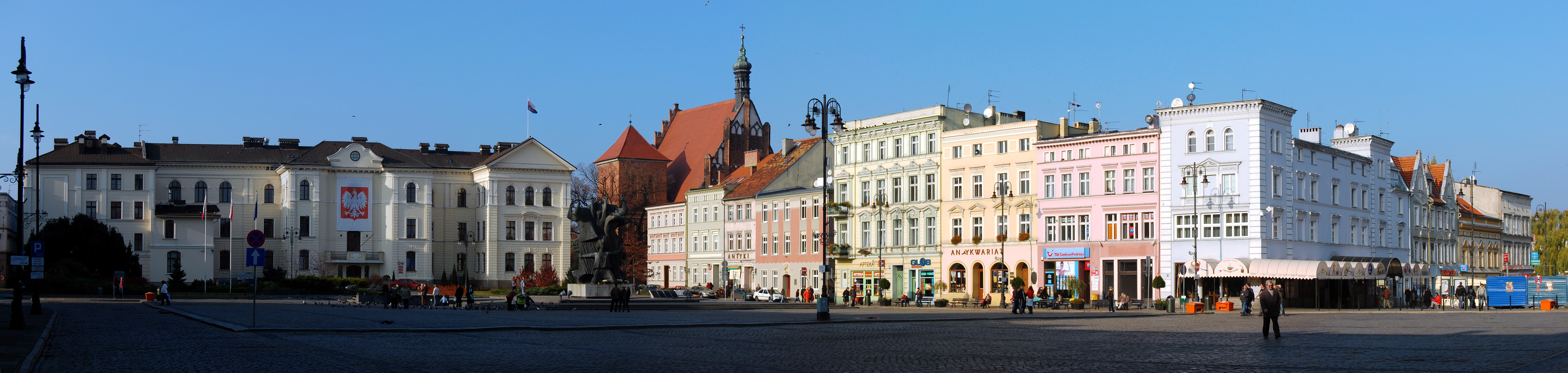 Market Square in Bydgoszcz, Poland.